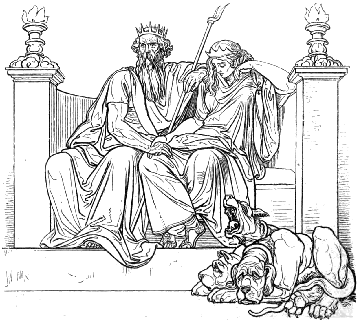 Hades (Pluton) depicted sitting on the left holding a bident in his left hand, next to Persephone (Proserpina), with Cerberus (Kerberos) seated below